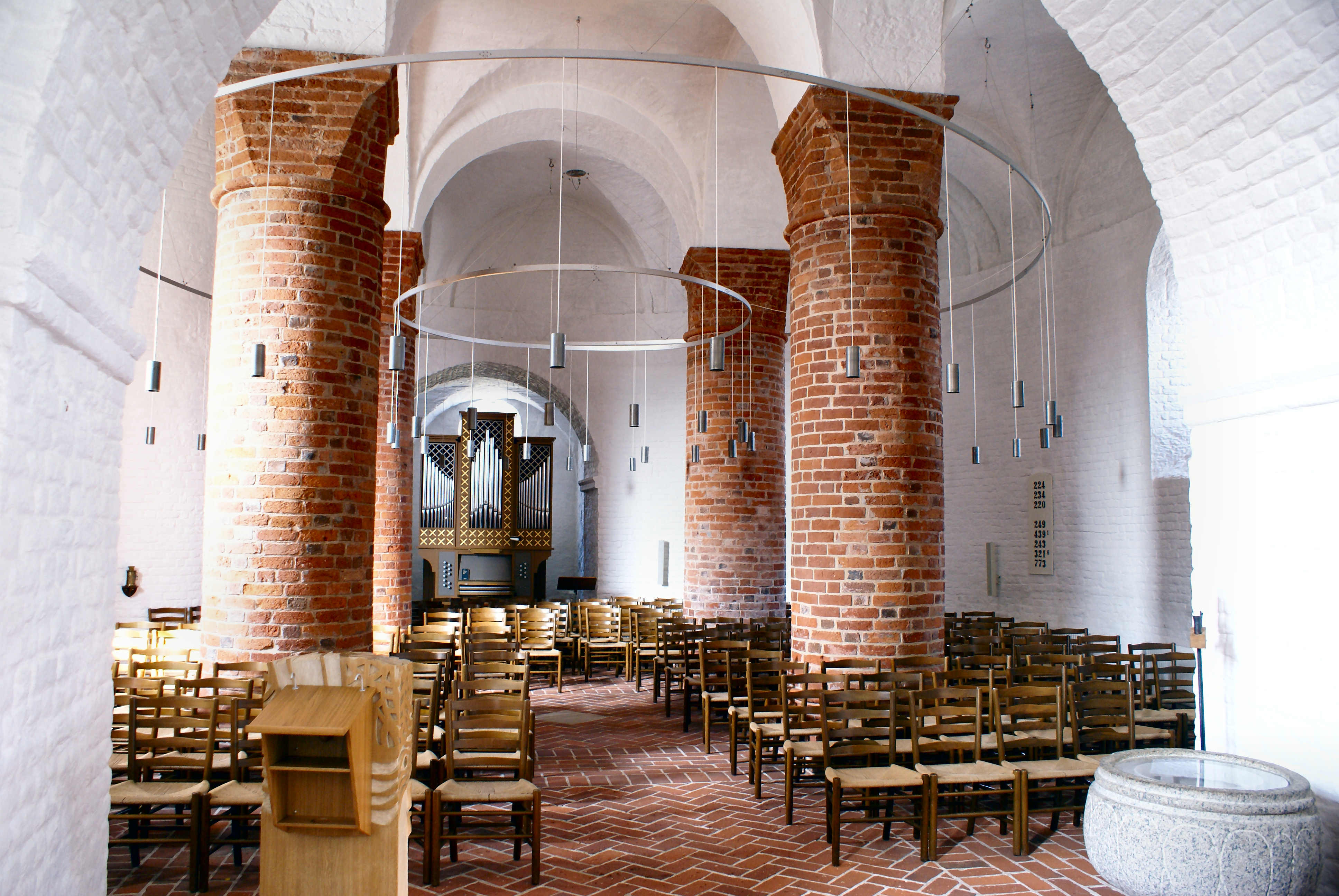 Thorsager Church, Denmark